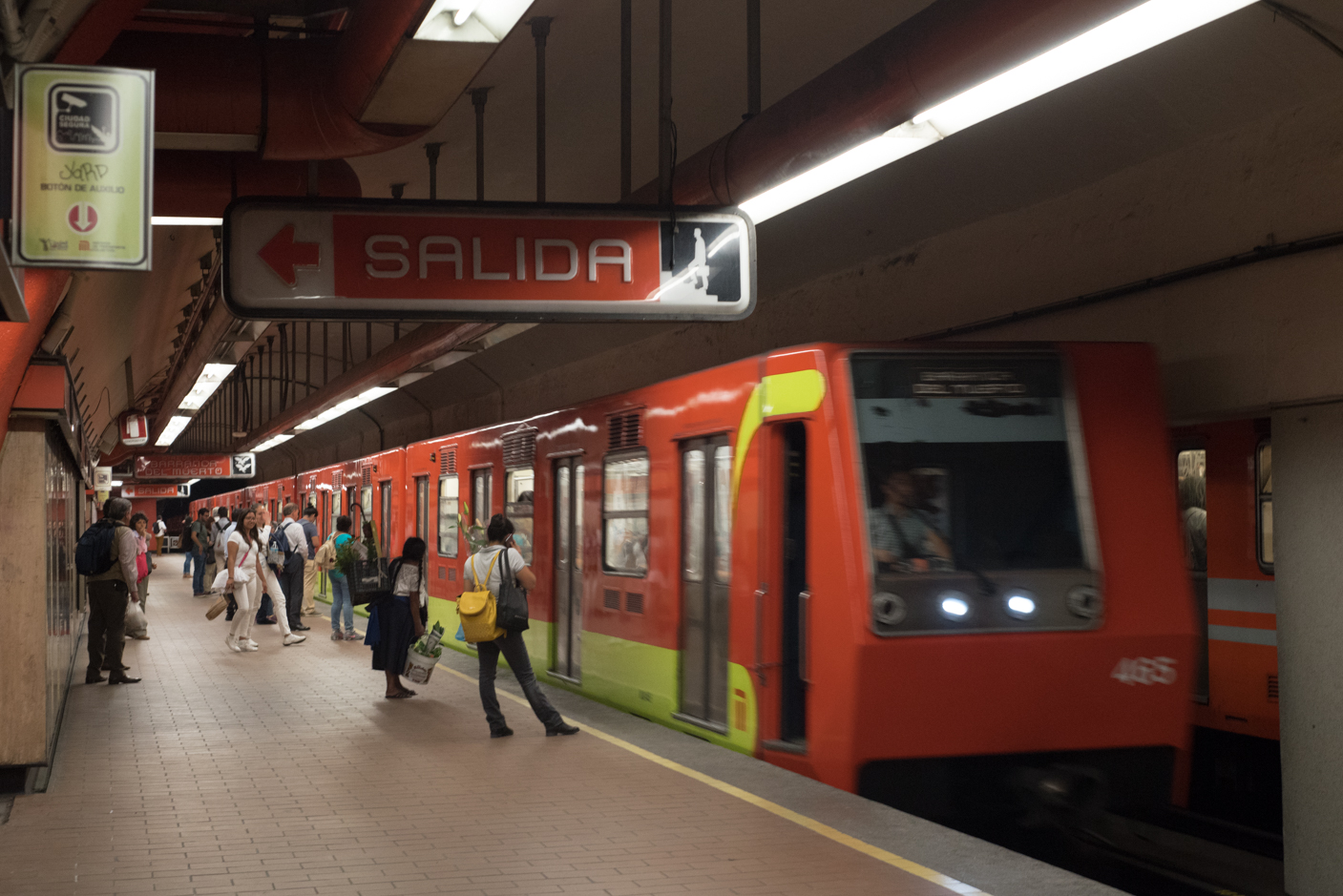 Platform at the San Pedro de los Pinos station of the Mexico City Metro